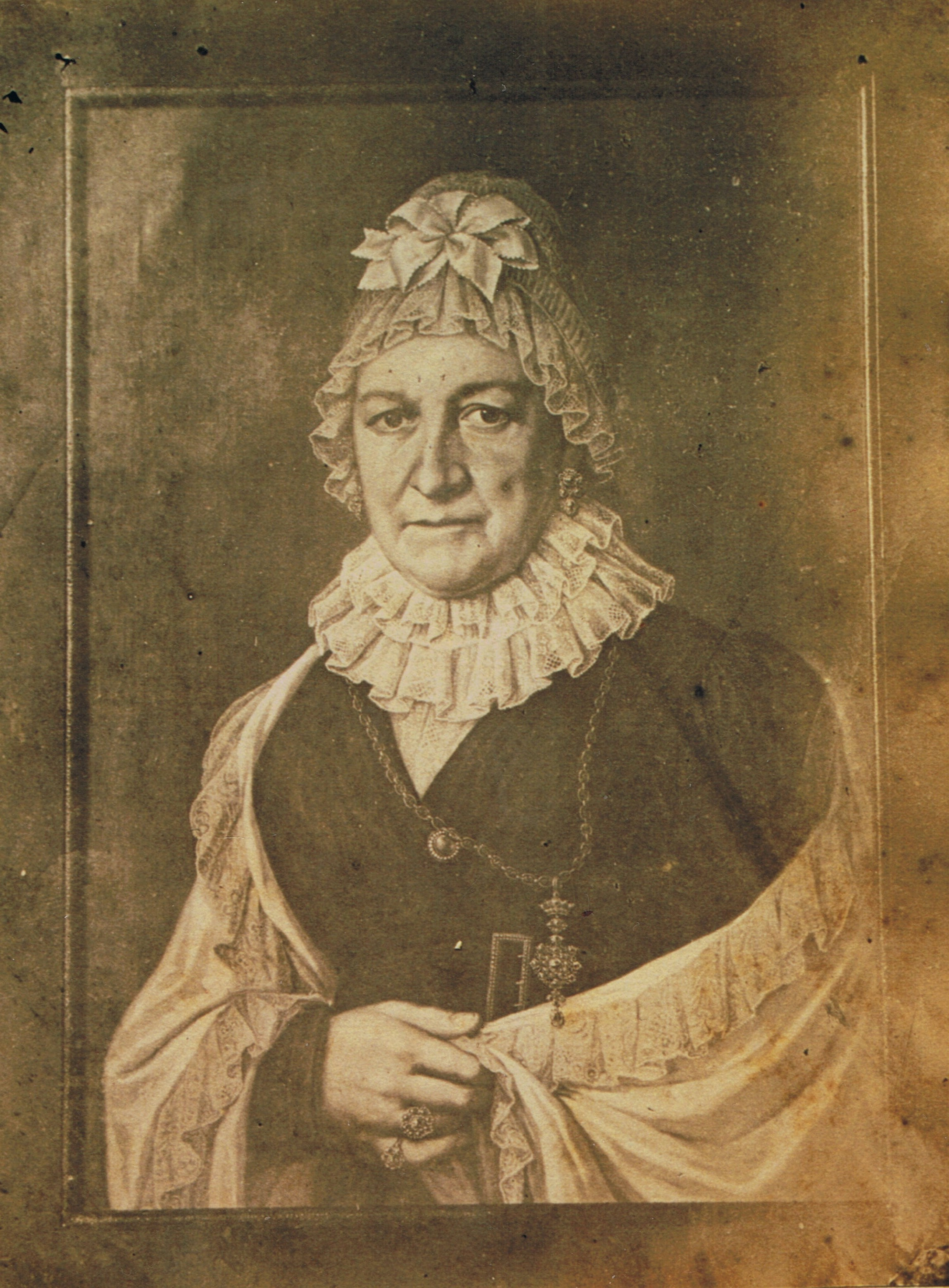 photo (R. de Salis Oct. 2009) of a c.1870 photo of a c.1820 oil painting of Anna, third wife to Peter (3rd Count) de Salis-Soglio Rodolph (talk) 14:57, 24 November 2009 (UTC)